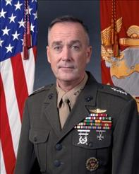 Lieutenant General Joseph F. Dunford, Jr., United States Marine Corps